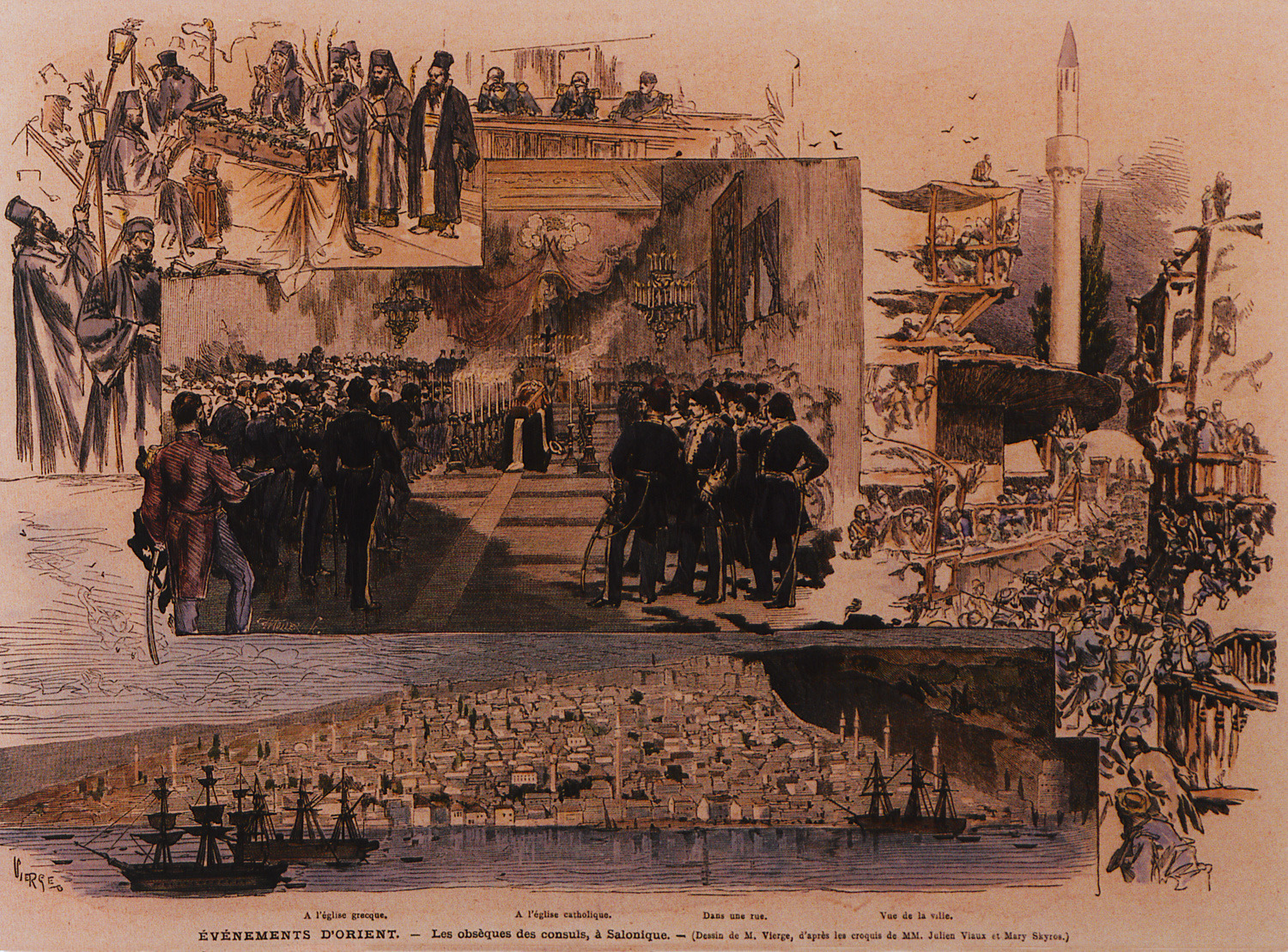 Scenes from the funerary services for the consuls in Thessaloniki (May 1876). View of Thessaloniki. From Le Monde Illustré, May 1876.